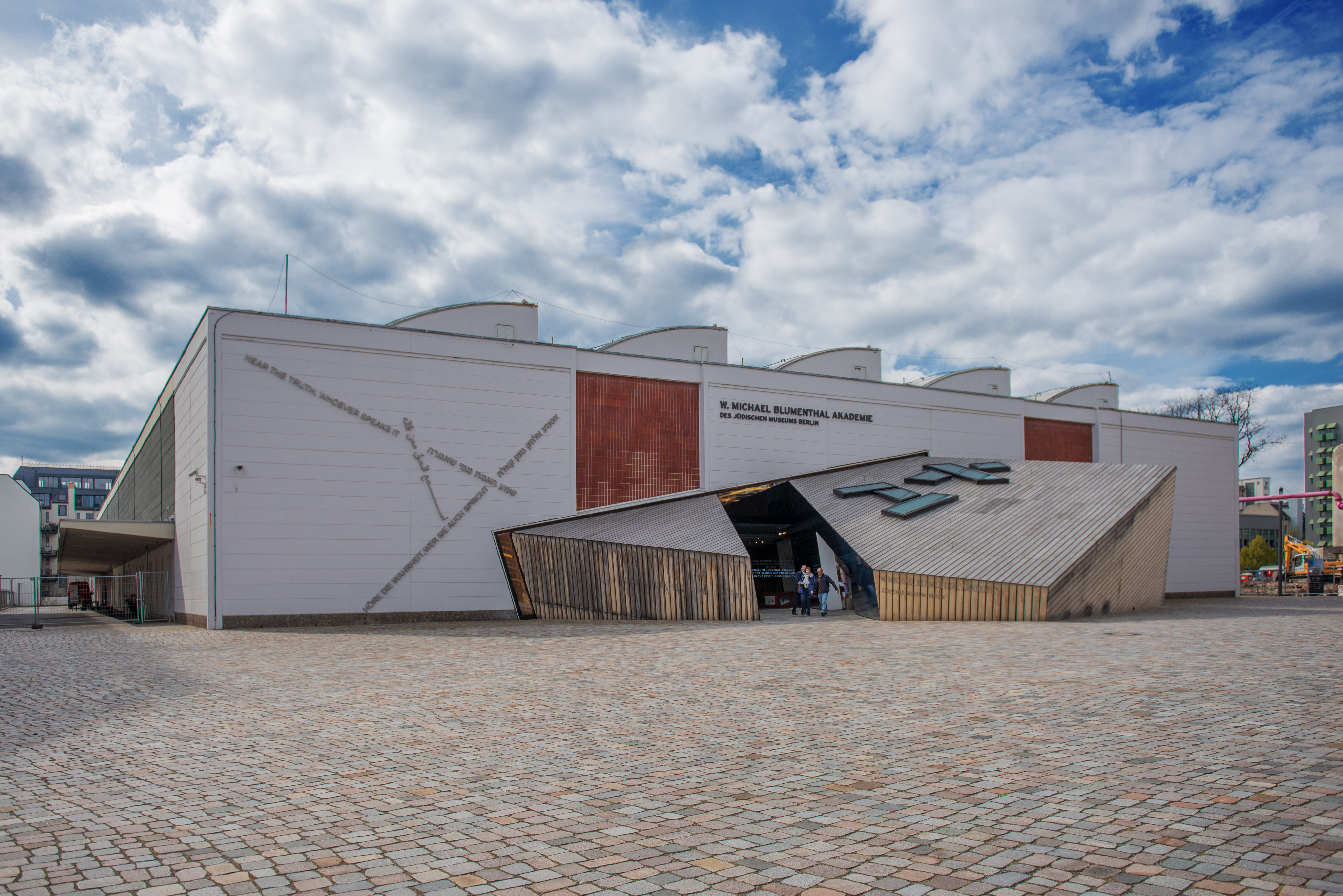 the Academy of W. Michael Blumenthal